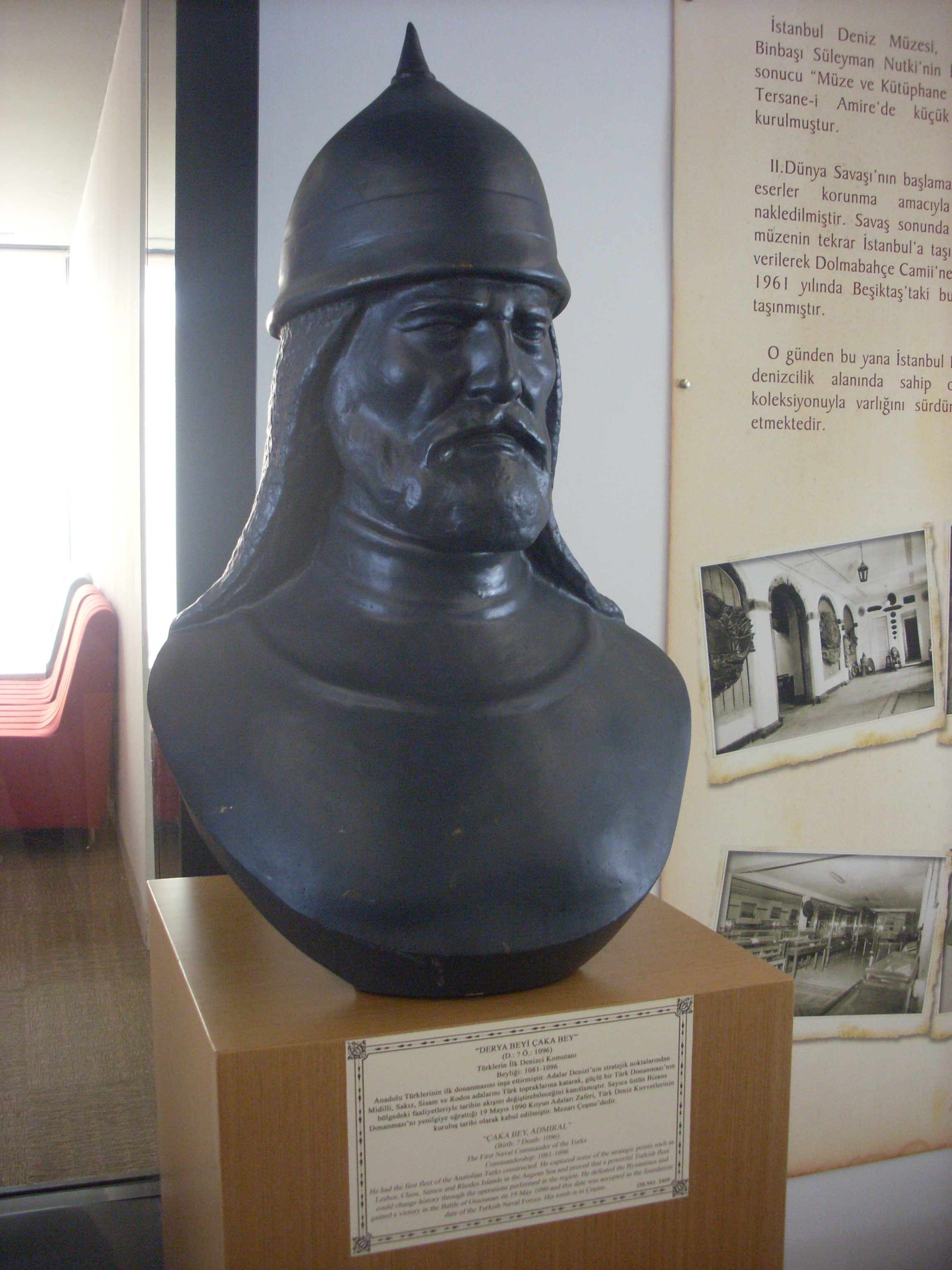 Çaka Bey (Tzachas) bust at Istanbul Naval Museum